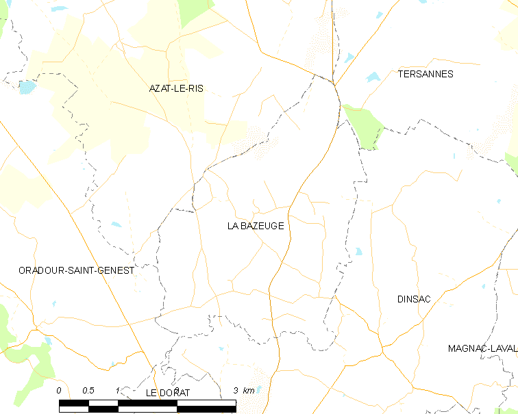 Map of French municipality La Bazeuge